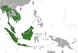 Sunda Pangolin (Manis javanica) range